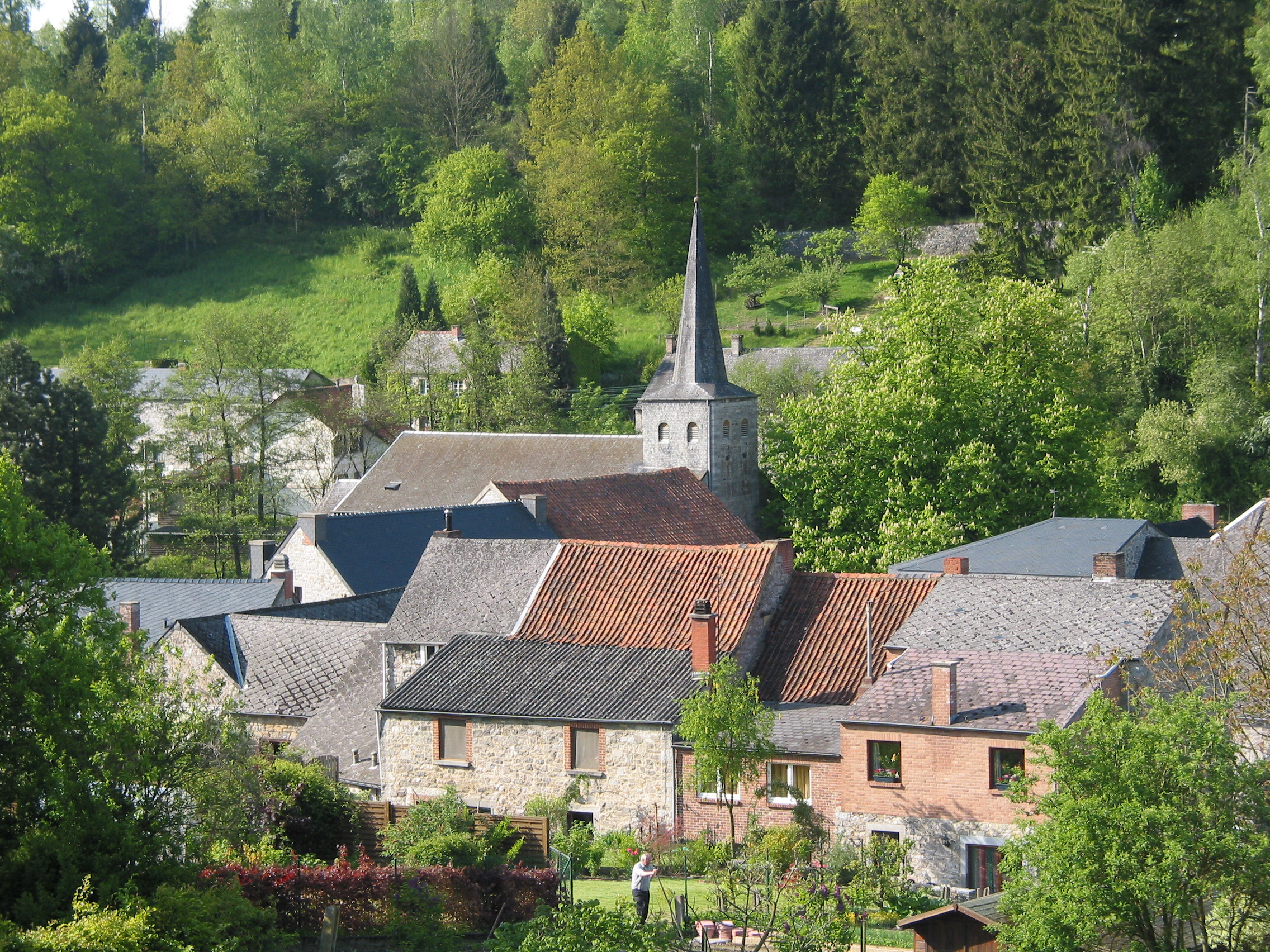 Maredret (Belgium), the village in the spring.